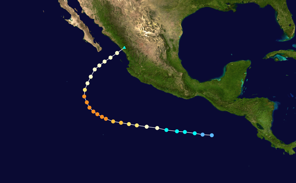 Hurricane Roslyn (1986) track. Uses the color scheme from the Saffir-Simpson Hurricane Scale.